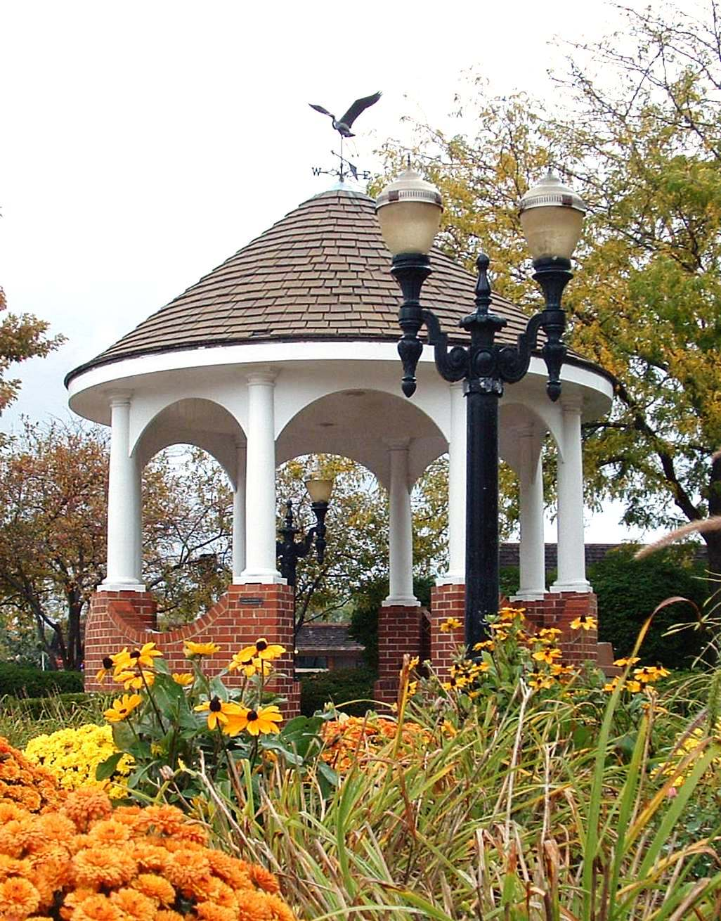 Photograph of gazebo in downtown Barrington, Illinois in autumn. Near the corner of Main St. and Hough St.